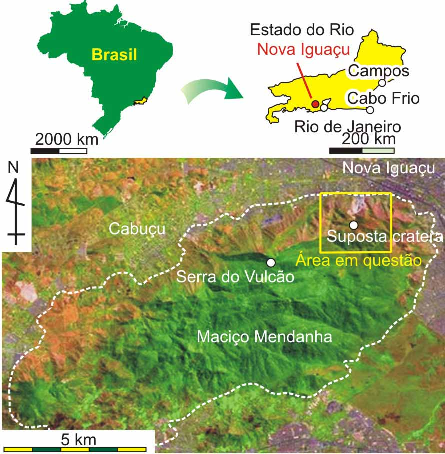 Locality map of Nova Iguaçu volcanic rock suites